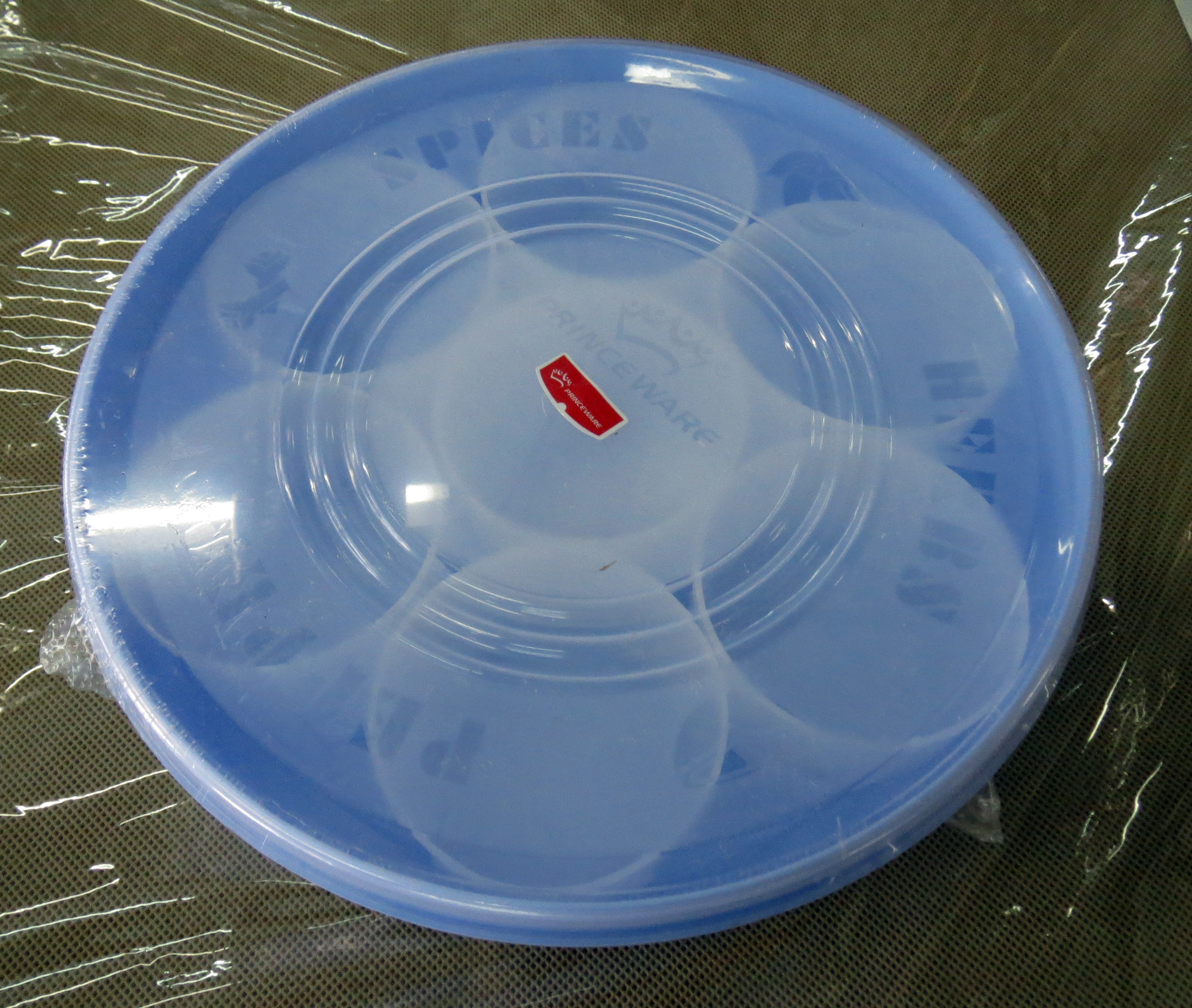 This plastic container is used to contain essential groceries.